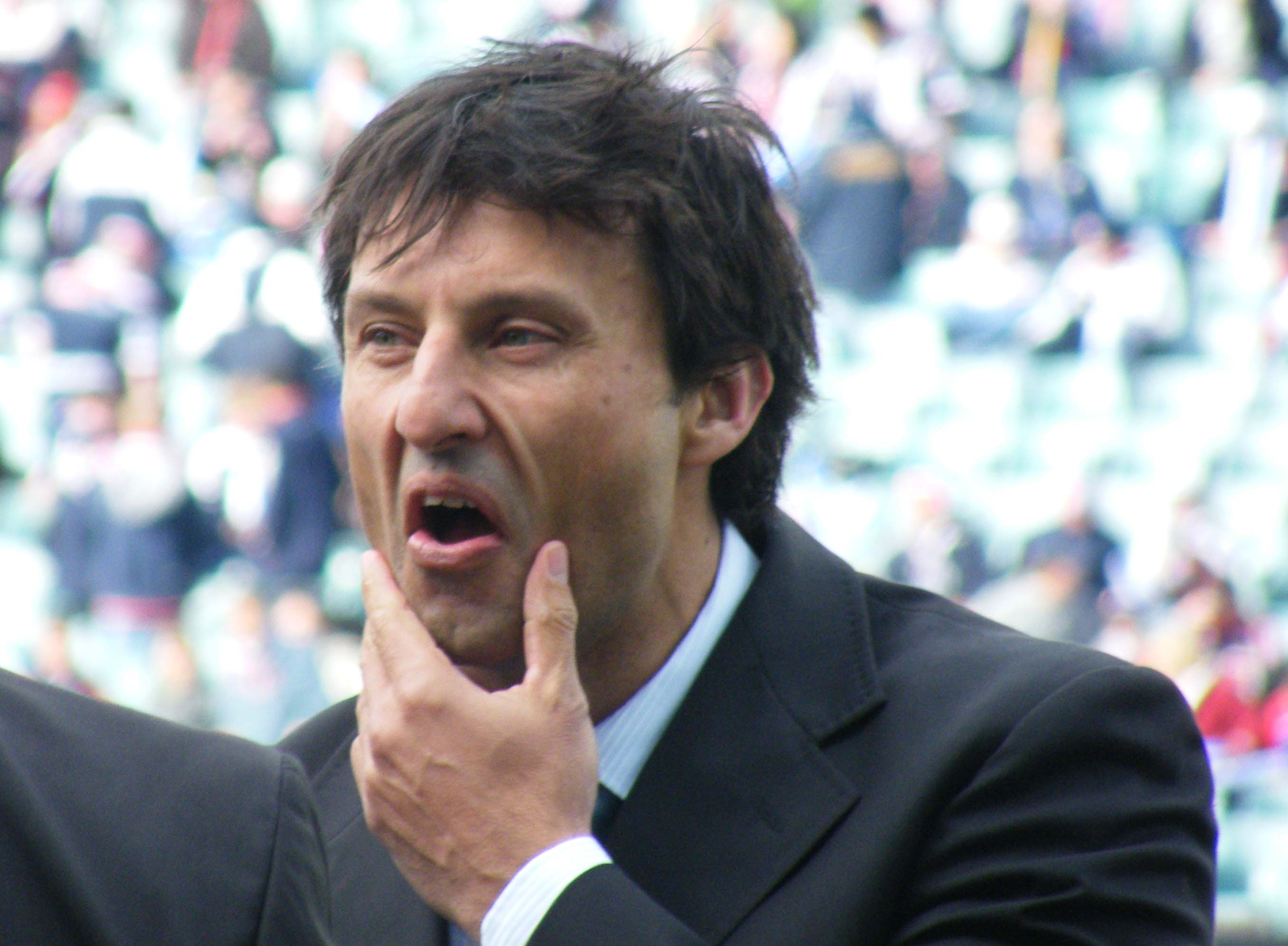 A pensive Channel Nine commentator and rugby league icon Laurie Daley.